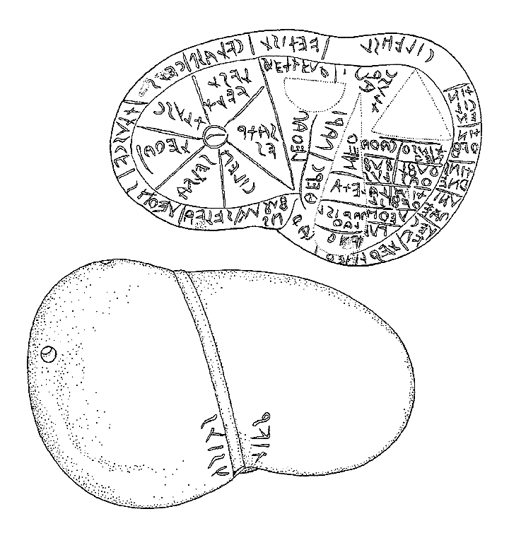 Fig. 2 Piacenza Liver, bronze. Piacenza Late 2nd Cent. BCE